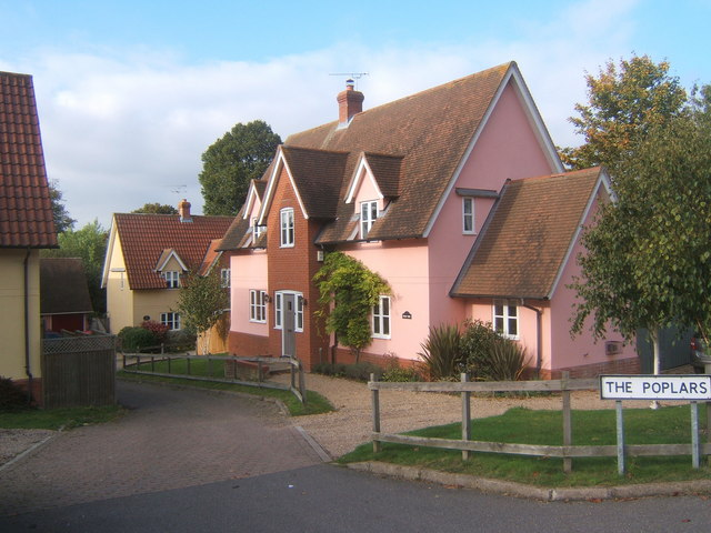 Houses in Coddenham